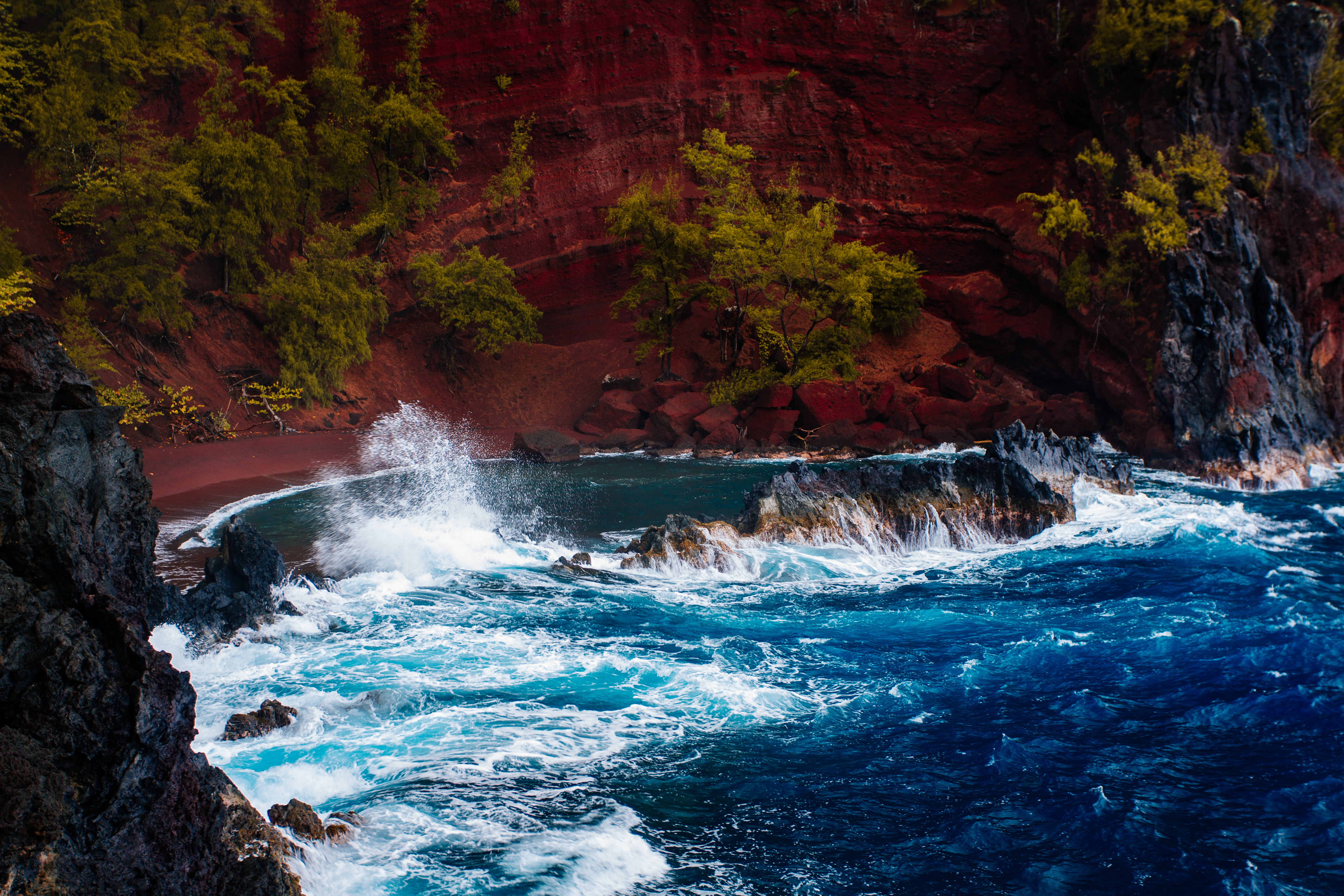 Hana, United States